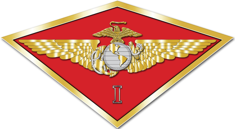 United States Marine Corps - Marine Air Wing I crest. Made with Photoshop.